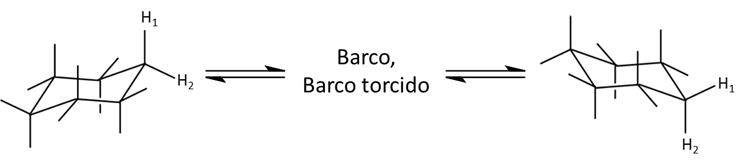 Figura g. Interconversão do ciclohexano.